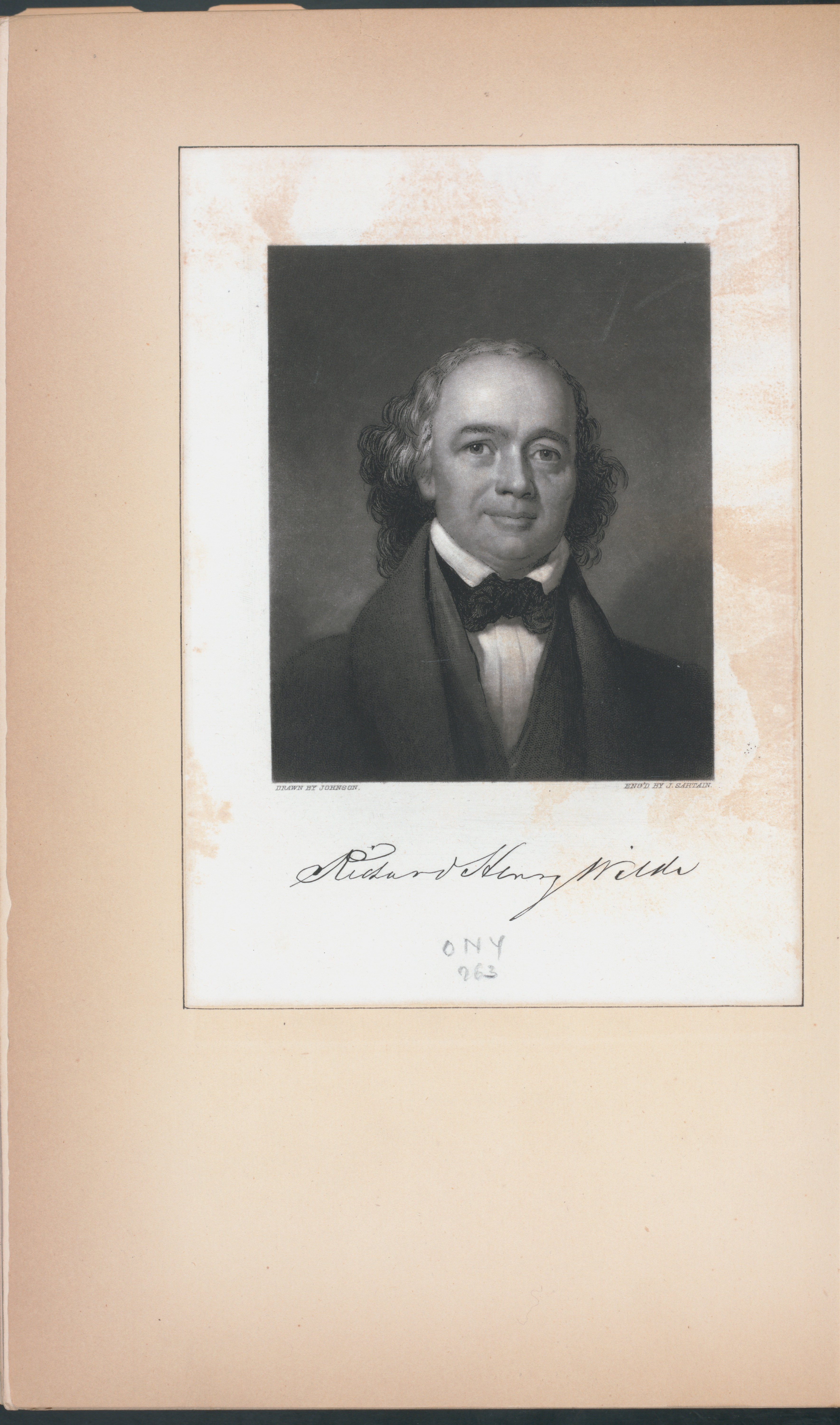 Illustrated by Thomas Addis Emmet, 1880. Volume 2 consists of pages 1-99 of the 1865, quarto, edition of the work, volume 3 of pages 99-213, volume 5 of pages 303-400. Citation/Reference: EM13131 "Drawn by Johnson."